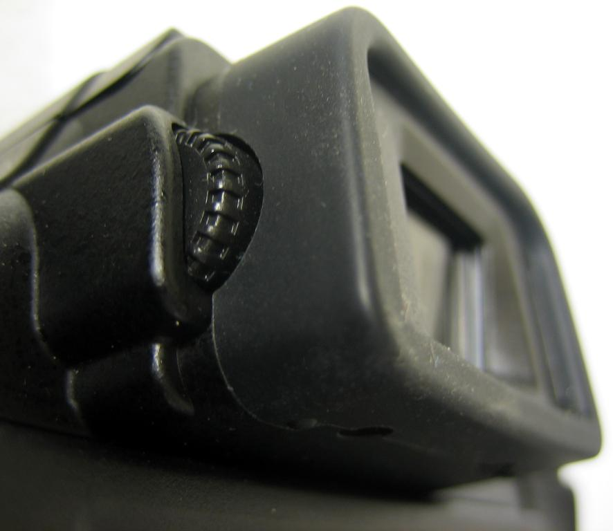 Wheel for adjusting the dioptre correction at a system camera